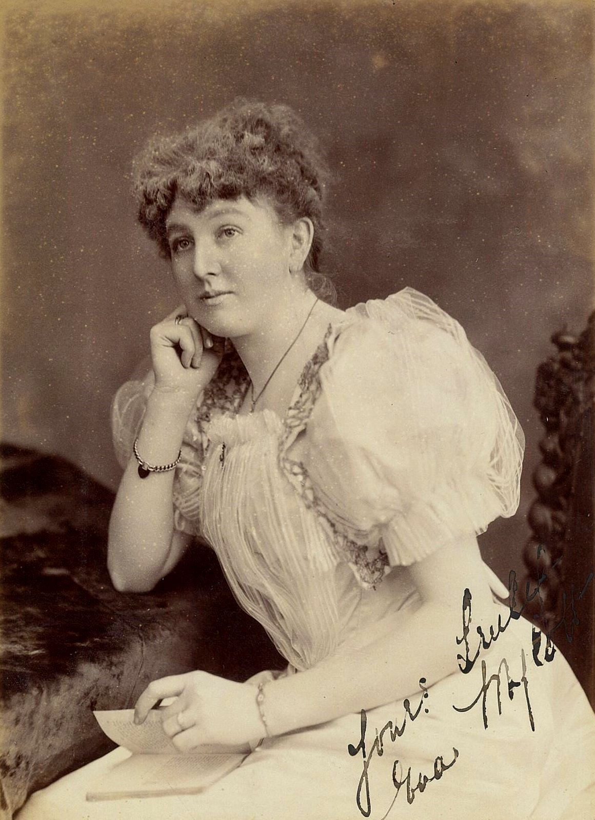 Eva Mylott, contralto and paternal grandmother of Mel Gibson, was born in 1875 at Tuross Head, N.S.W. Her family owned the whole peninsula at one time. Her father Patrick imported wines and spirits, and had ships trading from Tuross Head. He built Tuross House in the 1870's but rented the property out in 1883 (?) for his daughter's singing lessons. In Dec 1902 she sailed for the United States, appearing at the Metropolitan Opera with Nellie Melba and touring in 1914 with her cousin Marie Narelle (Molly Ryan), another singer, whose recordings are kept and issued by Screensound Australia. She was reputedly one of the many Melba protegees. She married in New York in 1917 and lived on Long Island. Her first son Hutton P. Gibson was Mel Gibson's father. She died in 1920 after her second son Alexander was born. Format: Photograph Notes: Find more detailed information about this photograph: .au/item/itemDetailPaged.aspx?itemID=446504 Search for more great images in the State Library's collections: .au/search/SimpleSearch.aspx From the collection of the State Library of New South Wales